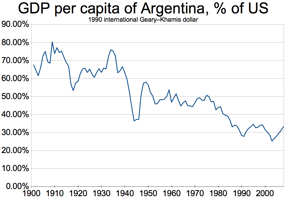 Argentina's GDP per capita (in 1990 international Geary–Khamis dollar) as a percentage of the US's. The source for the underlying data is Statistics on World Population, GDP and Per Capita GDP, 1-2008 AD by Angus Maddison.